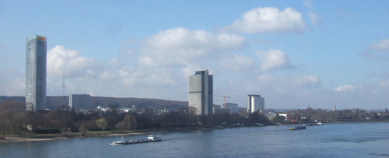 The south of Gronau in Bonn.